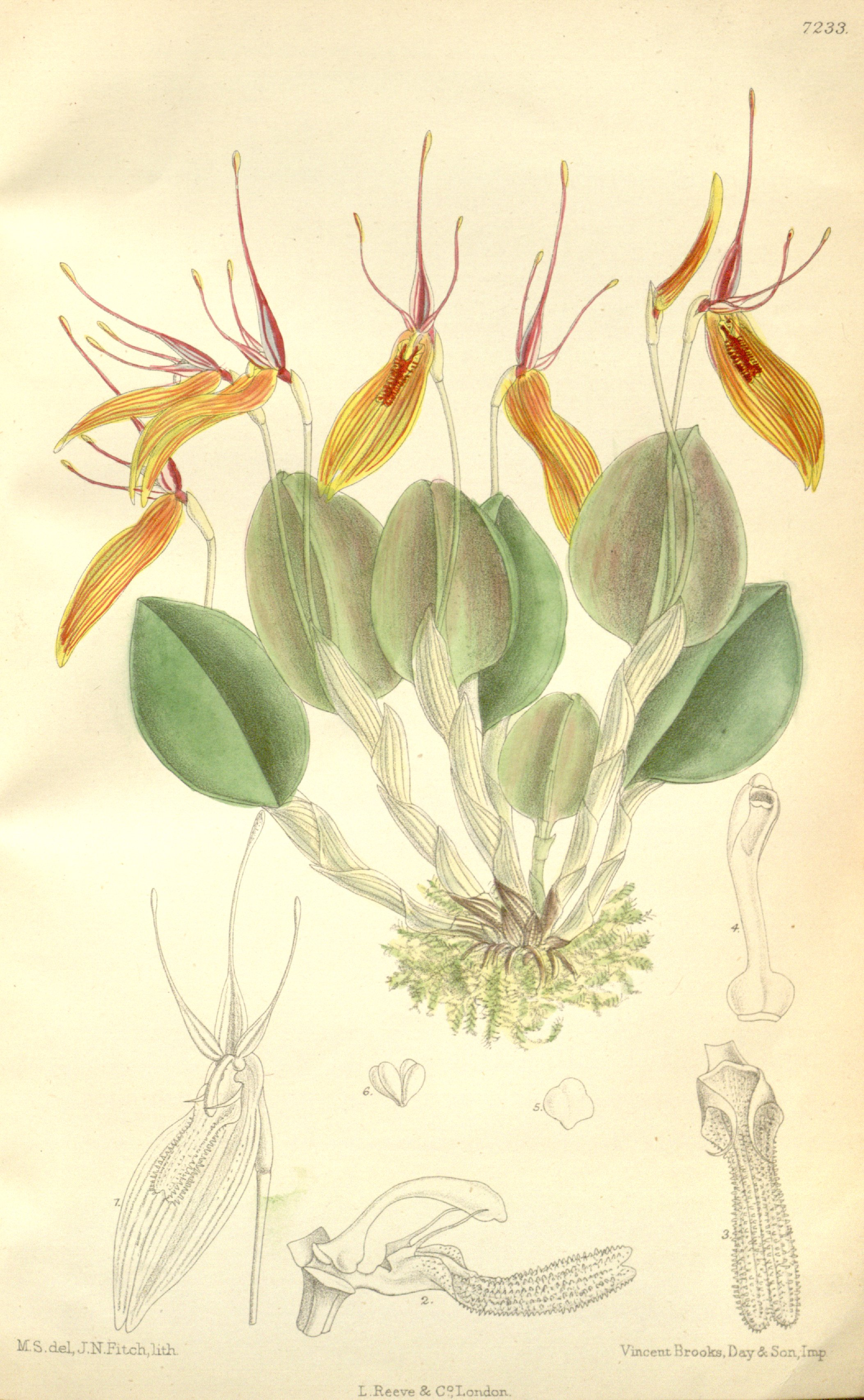 Illustration of Restrepia brachypus (as syn. Restrepia striata)